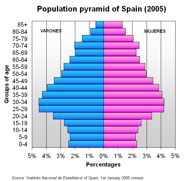 Population pyramid of Spain in 2005